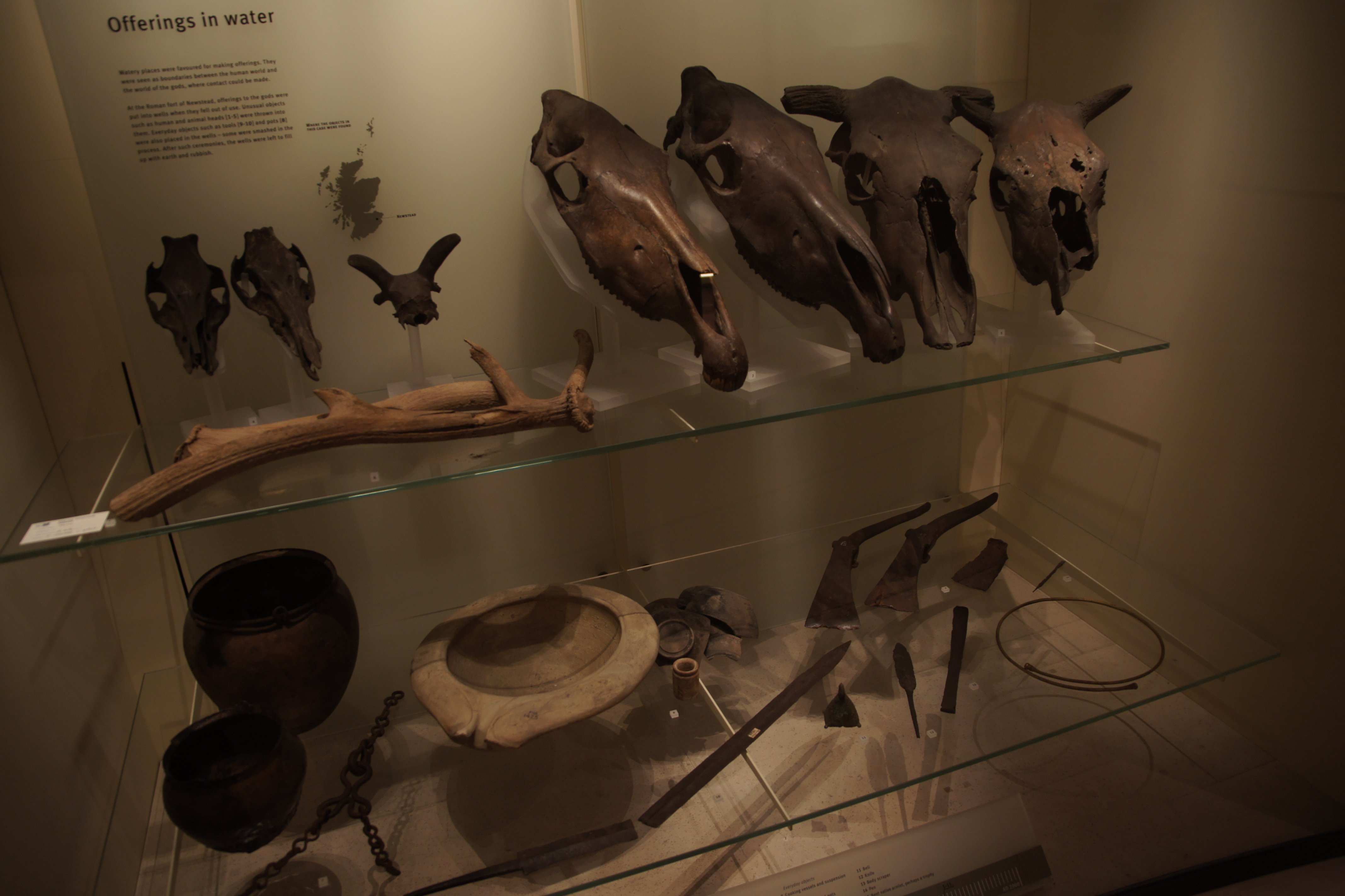 "Offerings in water Watery places were favored for making offerings. They were seen as boundaries between the human world the the world of the gods, where contact could be made. At the Roman fort of Newstead, offerings to the gods were put into wells when they fell out of use. Usually objects such as human and animal heads [1-5] were thrown into them. Everyday objects such as tools [9-10] and pots [8] were also places in the wells - some were smashed in the process. After such ceremonies, the wells were left to fill up with earth and rubbish."